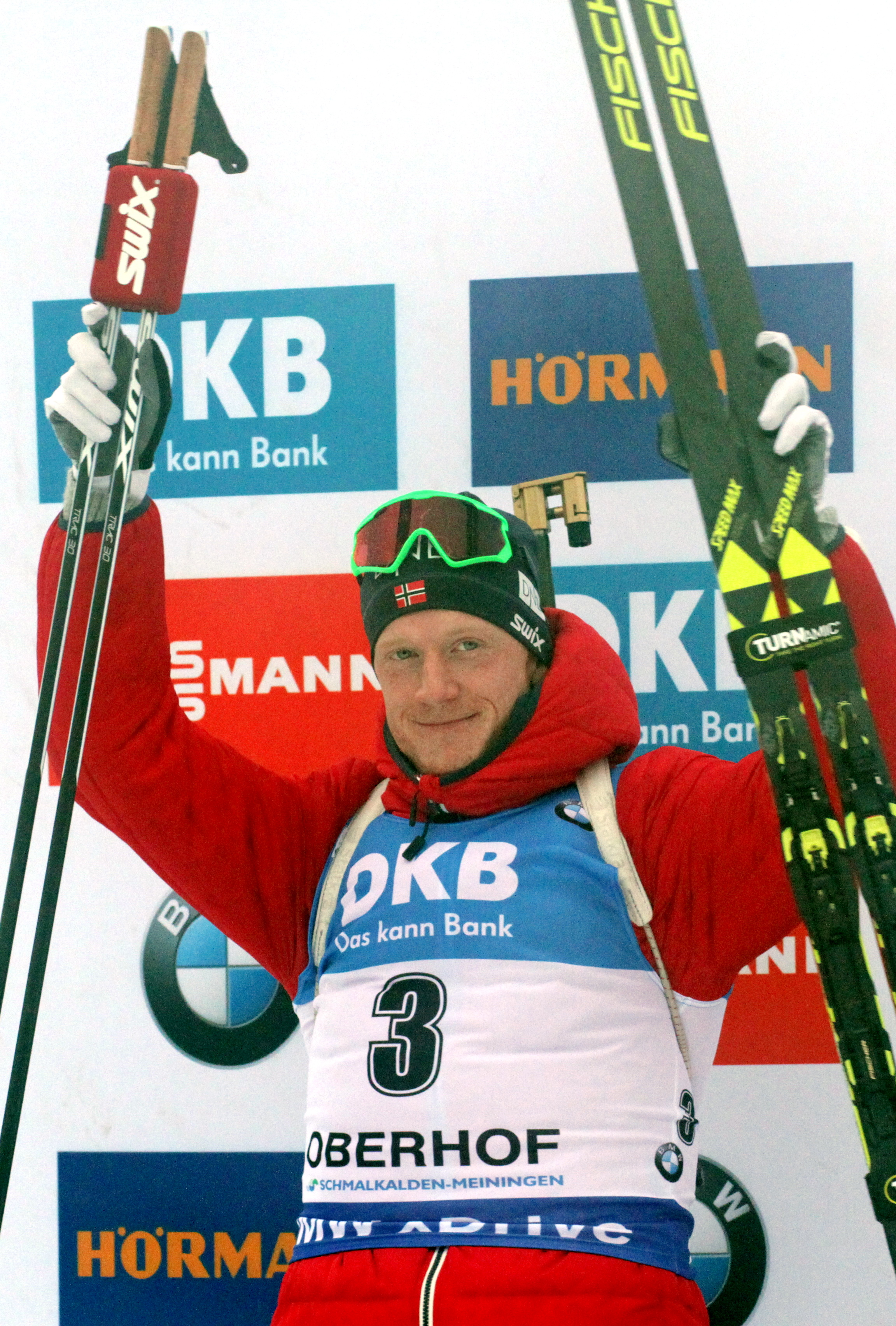 2018 Oberhof Biathlon World Cup - Pursuit Men